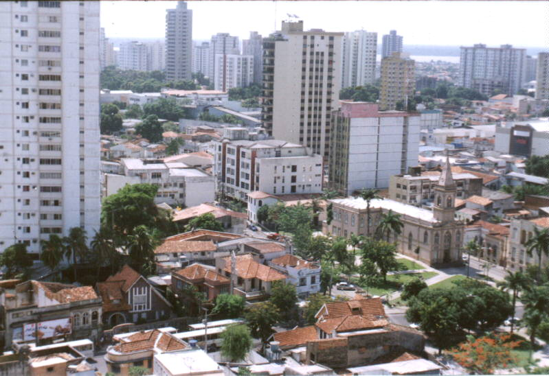 Photo of downtown Belém taken by myself (João Xavier M. Santos) from a suite in Hilton Belém hotel in 2003.